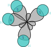 My feeble attempt at drawing methane in terms of hybrid orbitals